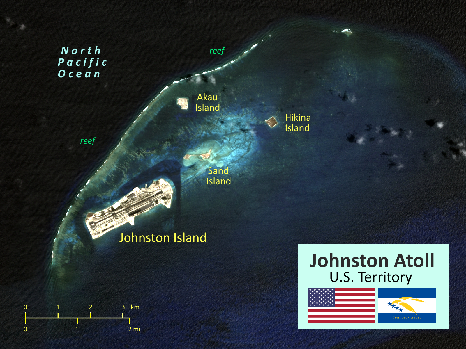 Satellite map of Johnston Atoll (Kalama Atoll), U.S. Territory in the North Pacific Ocean.